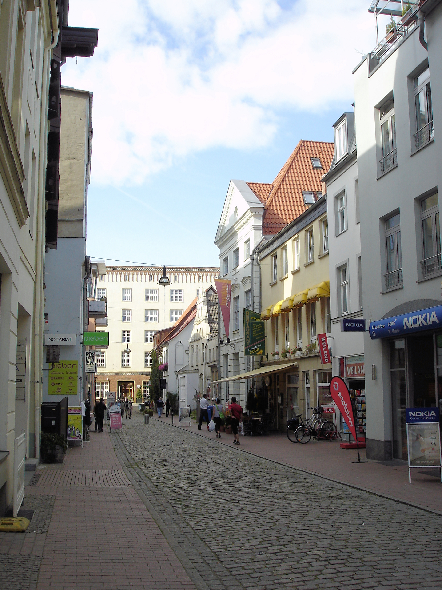 Street in the historic city of Rostock